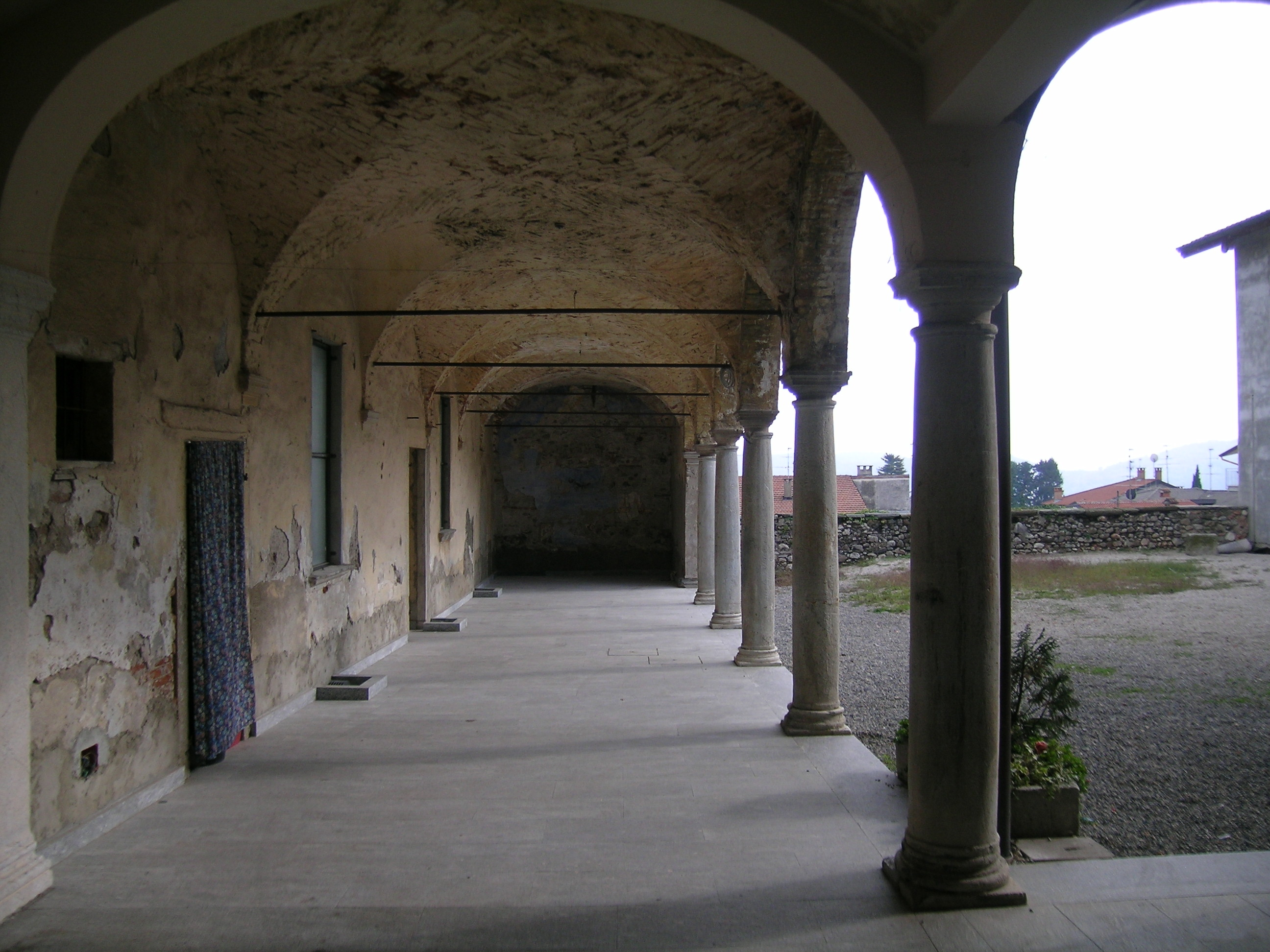 Clivio The "Royal Palace"